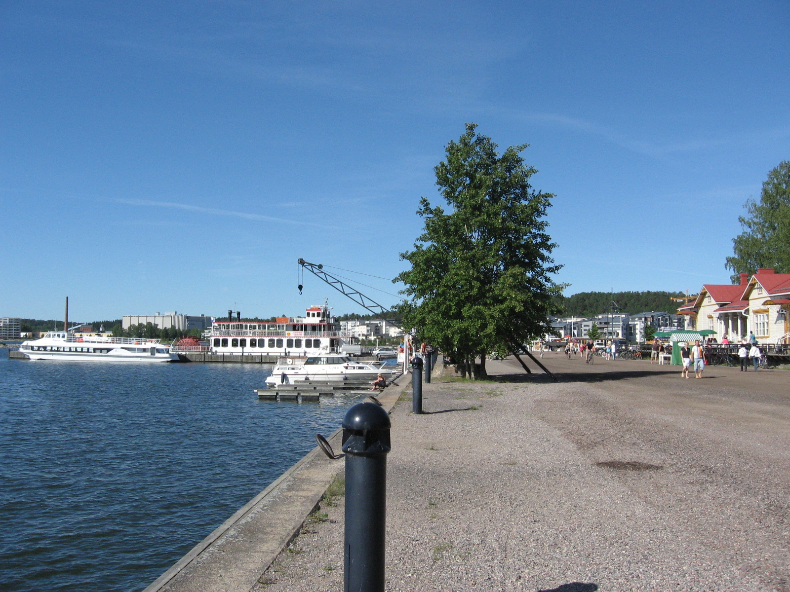 Leisure harbour of Lahti by the lake Vesijärvi